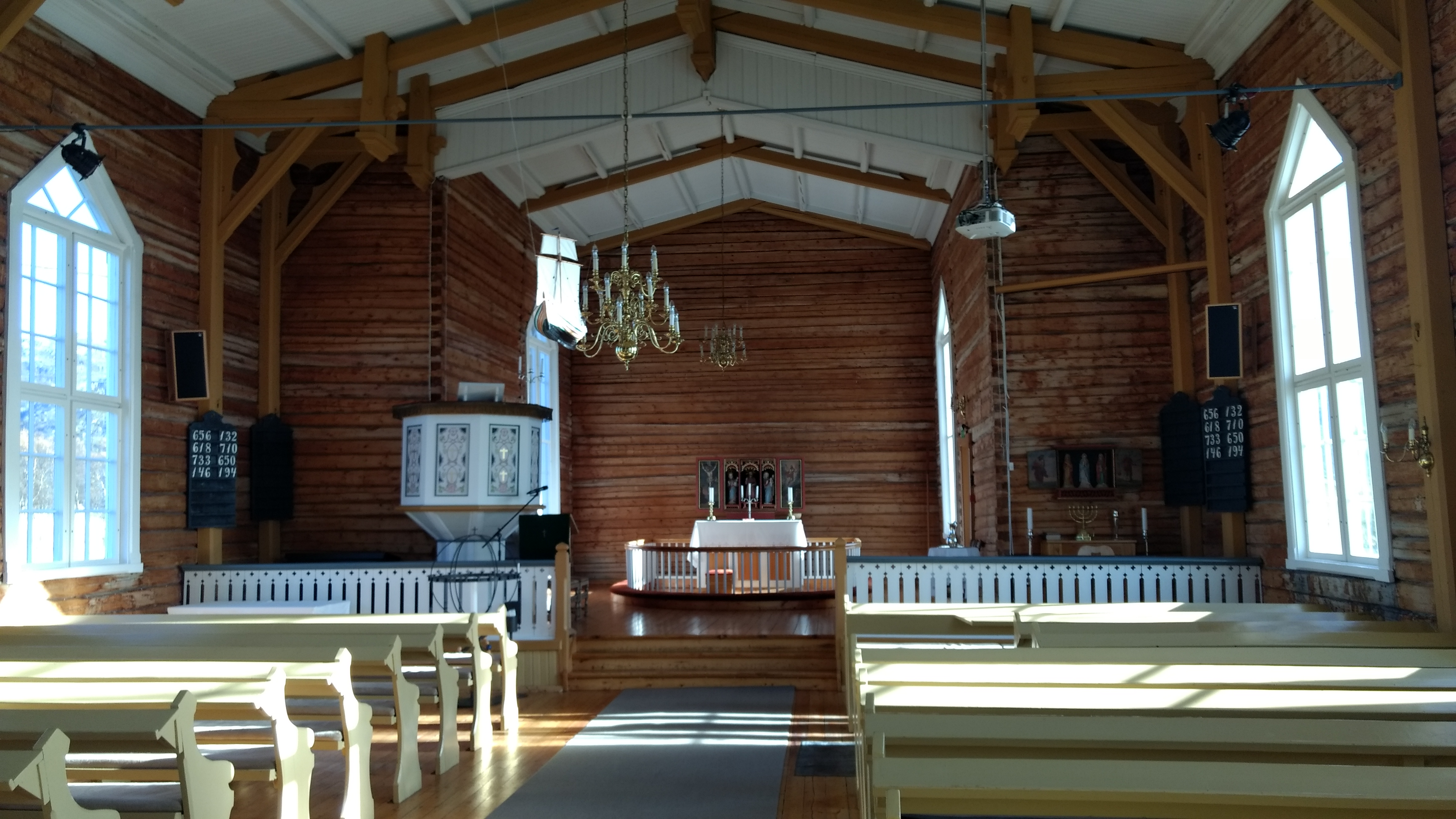 Hillesøy church seen from the back